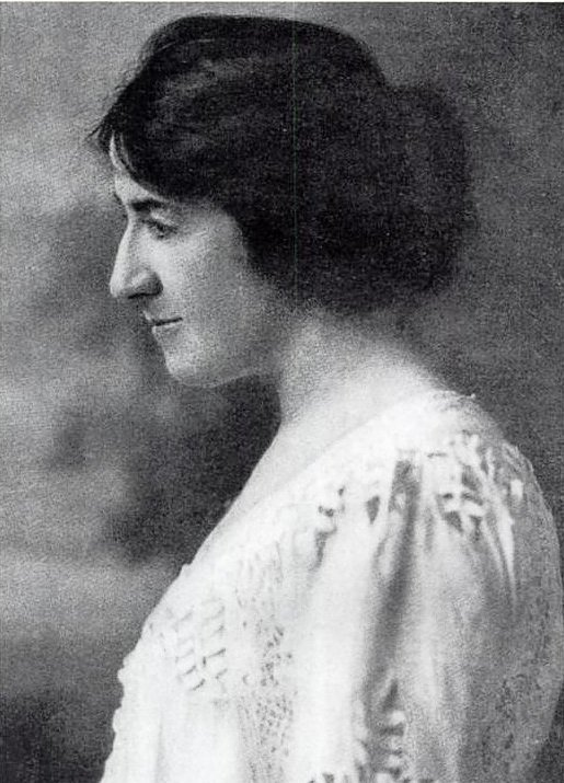 Photograph of Dora Keen taken circa 1913, early 20th century mountain climber and adventurer.